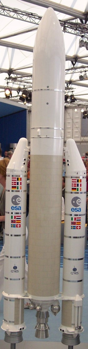 Model of Ariane 5 (rocket)